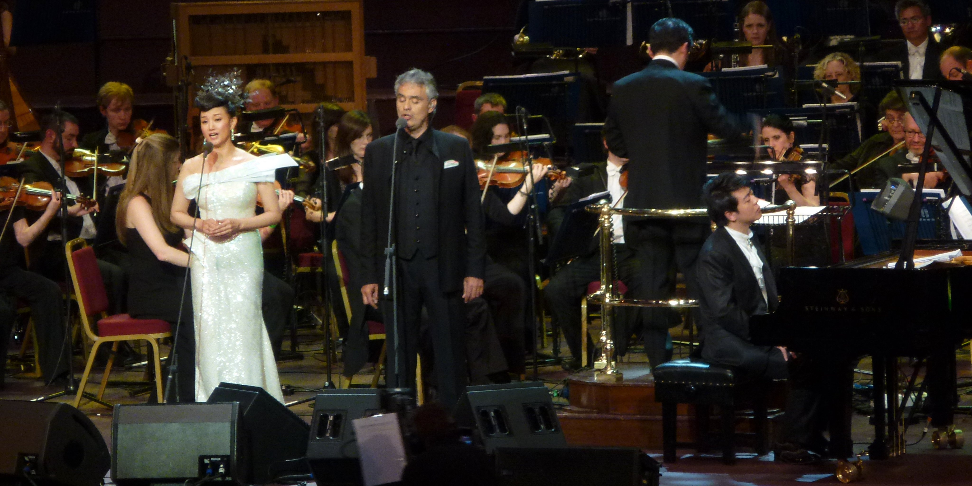 Song Zuying, Andrea Bocelli and Lang Lang (at the piano) performing Time to Say Goodbye at the East Meets West concert at London's Royal Albert Hall in June 2012.